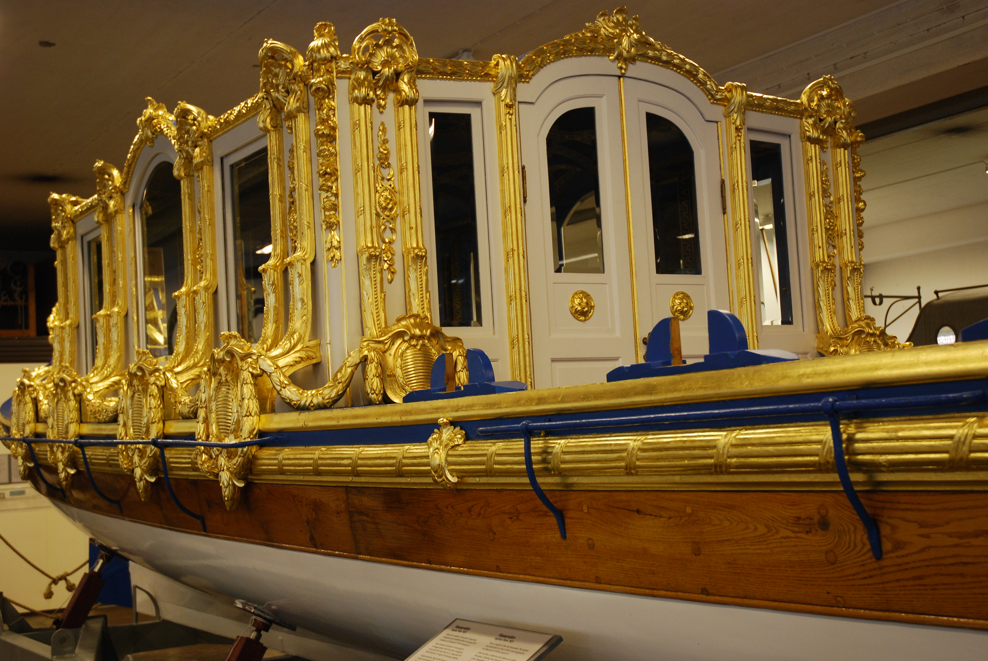 Swedish Royal barge Vasaorden, Djurgården, Stockholm, Sweden (detail). The barge is manned by sailors from the Swedish navy and used only on special occasions.